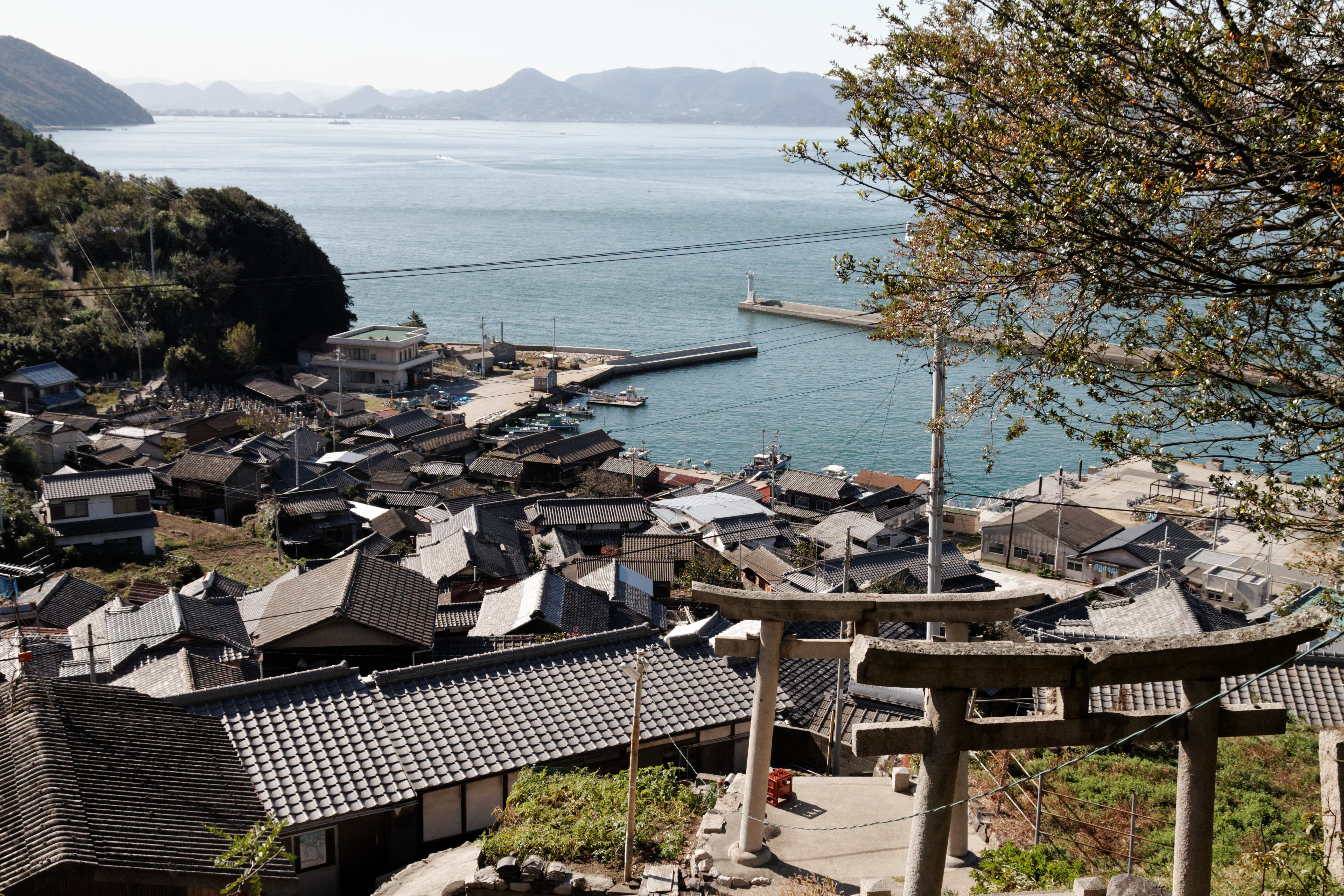 Ogijima - 男木島